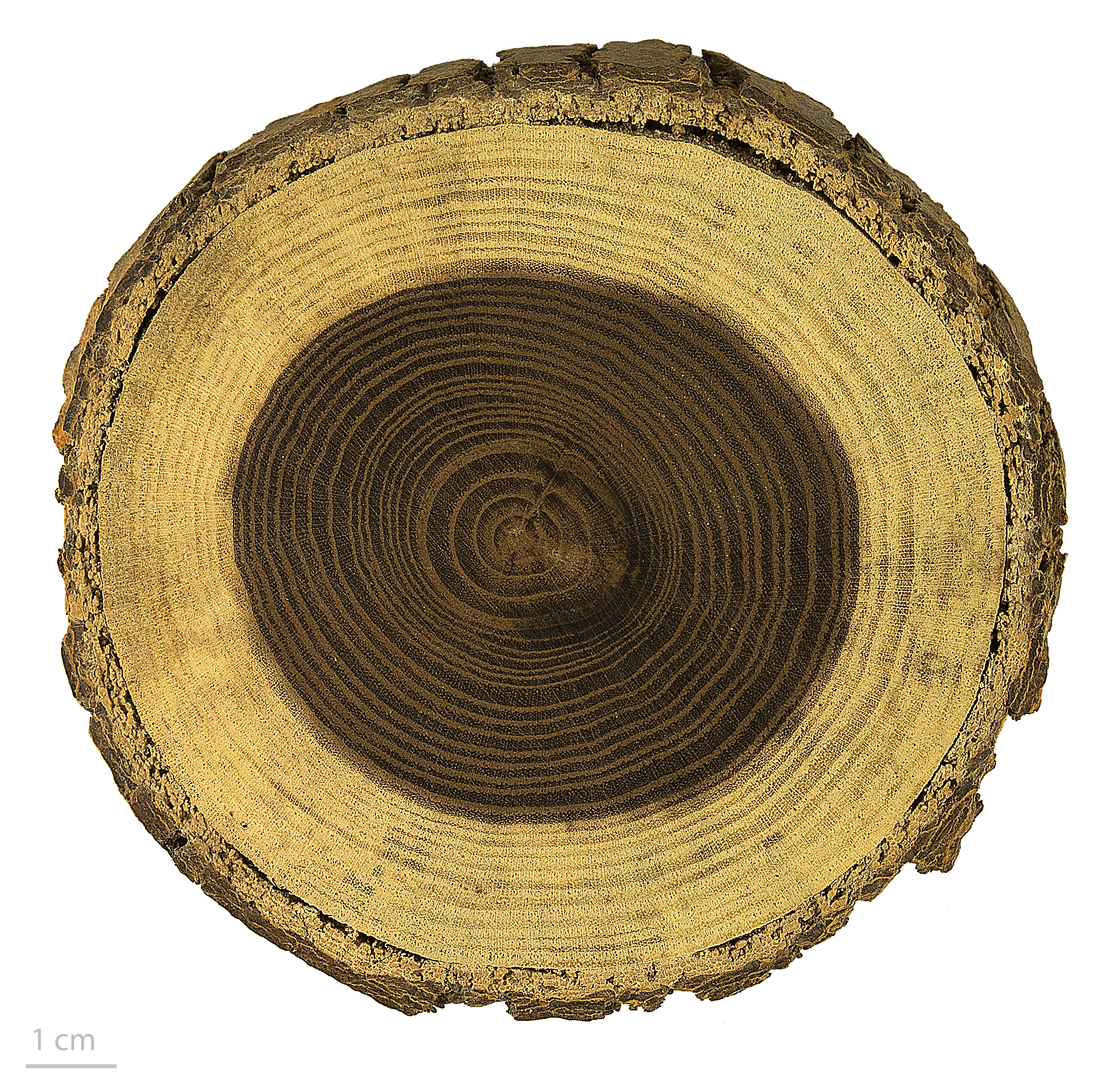 White mulberry , wood